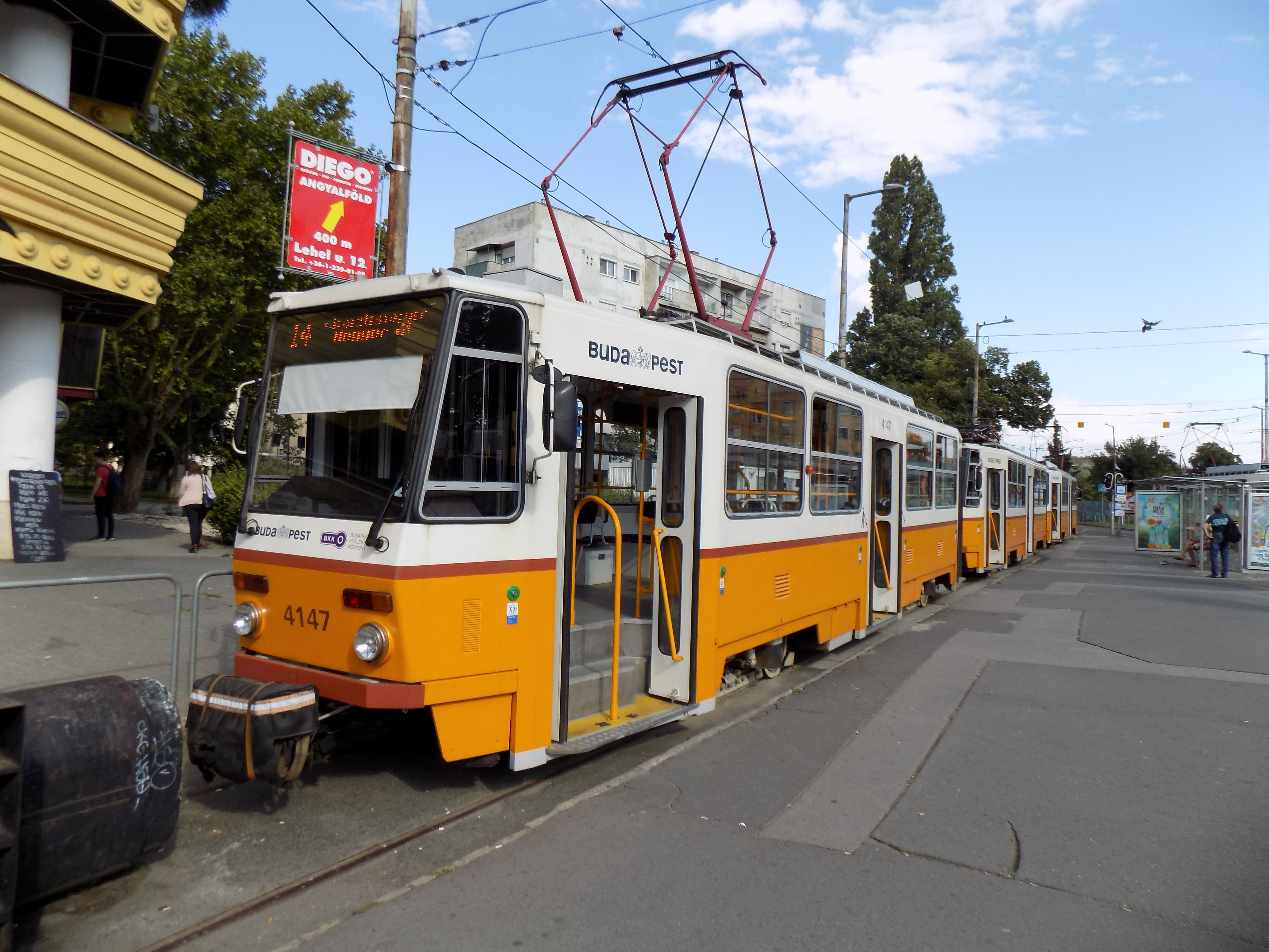 Tatra T5C5K tram (reg. 4147) on line 14 (Budapest)